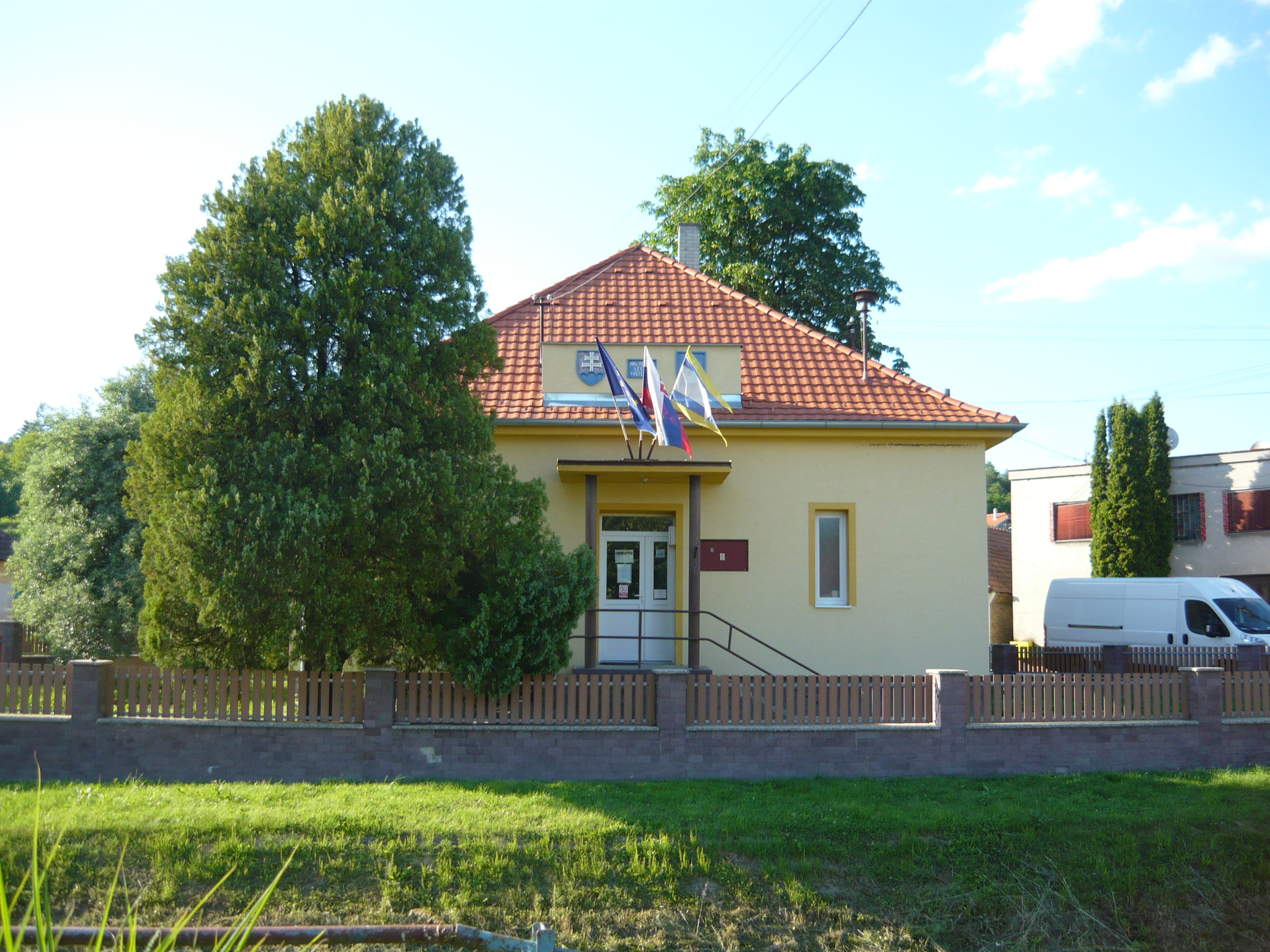 Town hall of Veľké Kršteňany, Slovakia.